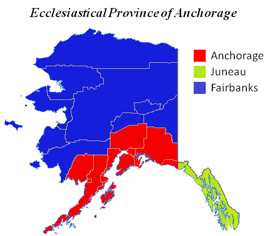 Ecclesiastical Province of Anchorage in the Catholic Church encompasses the state of Alaska, USA.